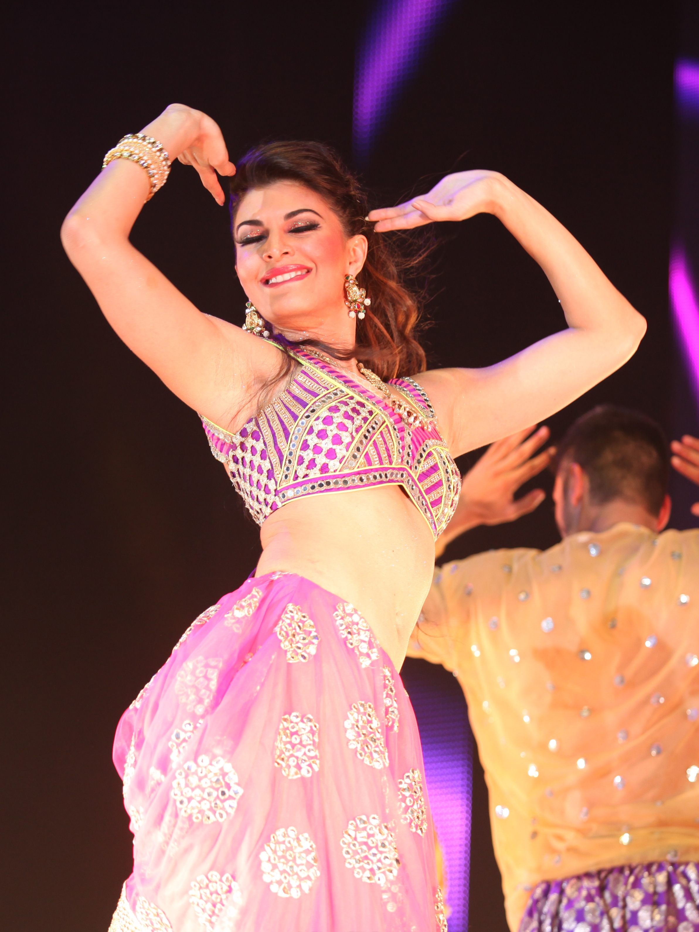 Jacqueline Fernandez making her debut at The O2